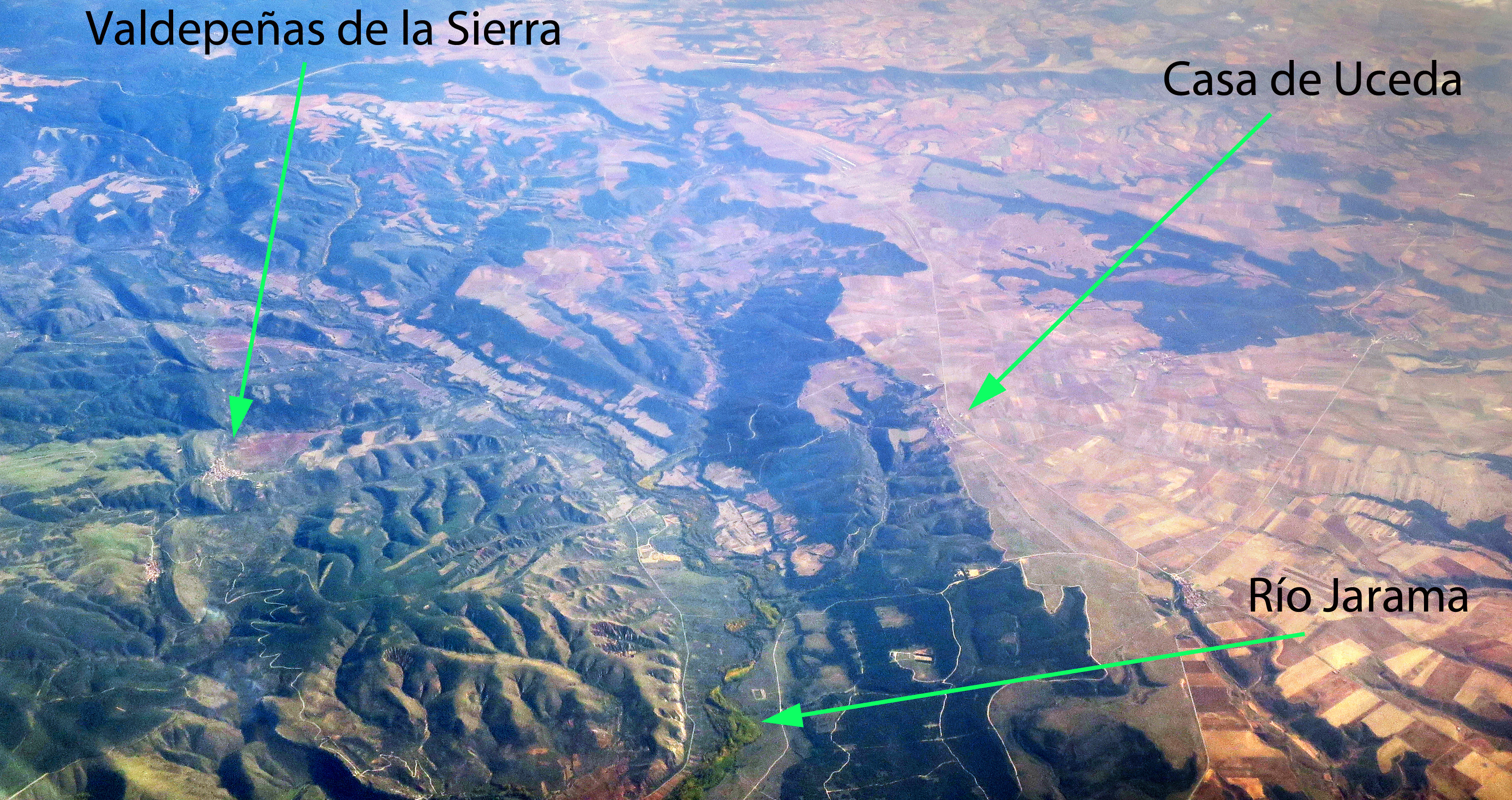 An aerial view of Valdepeñas de la Sierra and Casa de Uceda in the province of Guadalajara, Spain.